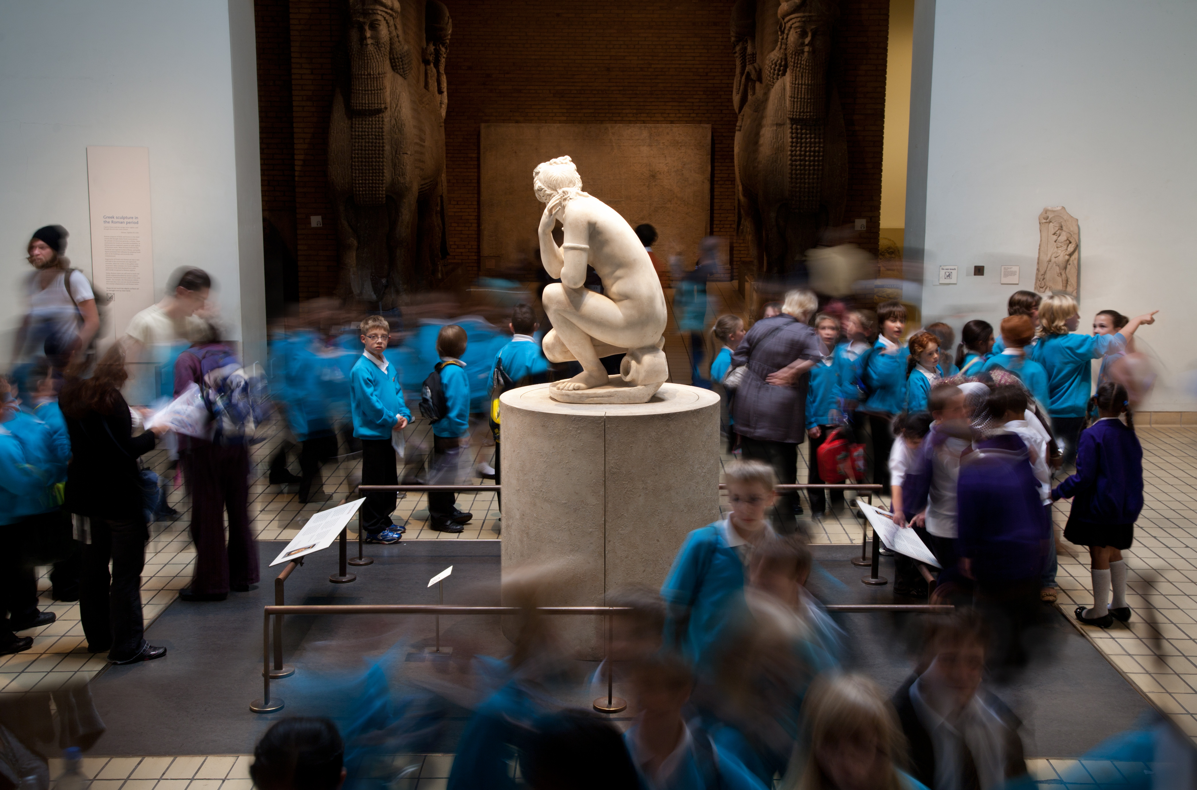 Children in a school visit sorrounding the Lely's Venus. British Museum, London, UK